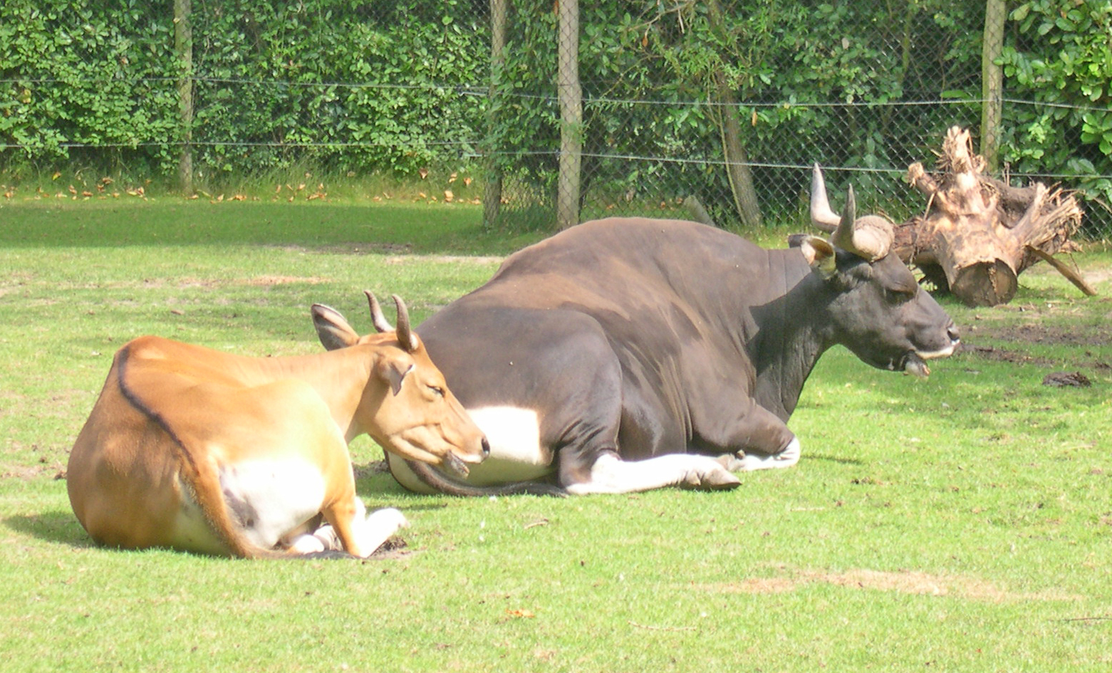 A male and a female Banteng